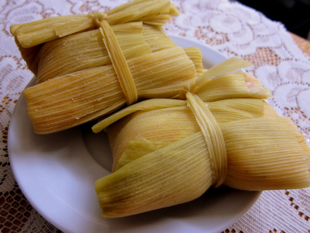 Typical humitas from Argentina